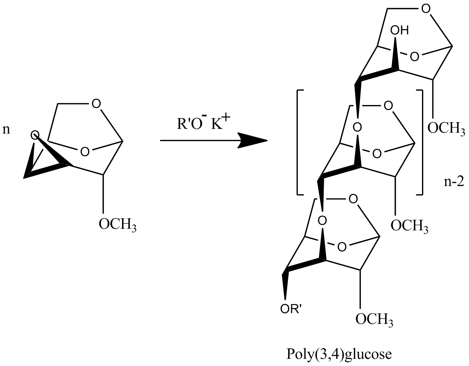 chemical structure of poly(3,4)glucose